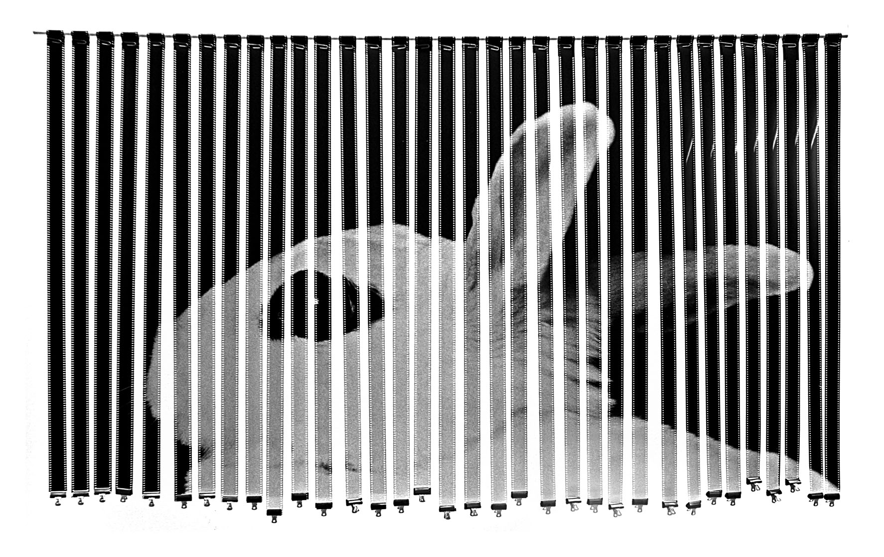 Reproduction of artwork. Artist : Peter Lind. Title : Rabbit Lab. Year : 1995. Material : Montage of 35mm rollfilm. Dimensions : 175 cm x 120 cm. Acquired by the Danish Art Foundation.Peter Lind.